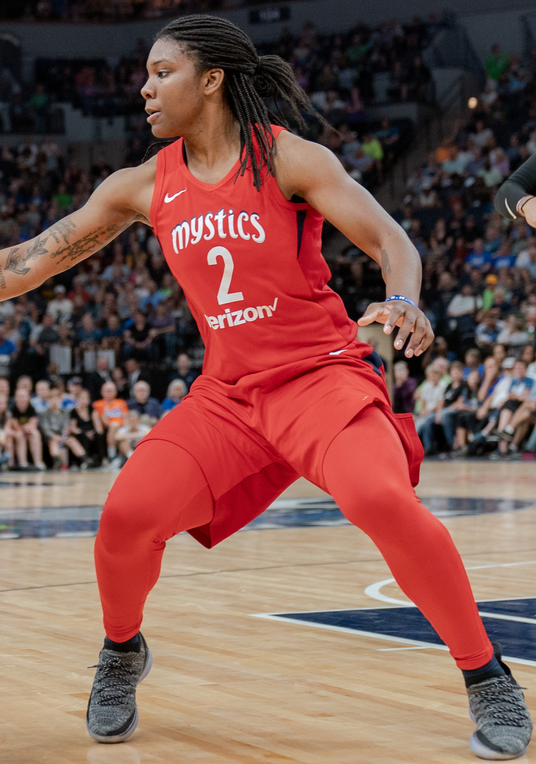 Cecilia Zandalasini (9) dribbles the ball behind her as she's guarded by Myisha Hines-Allen (2). The game was on Sunday August 19, 2018 at Target Center in Minneapolis, MN, the Minnesota Lynx beat the Washington Mystics 88-83